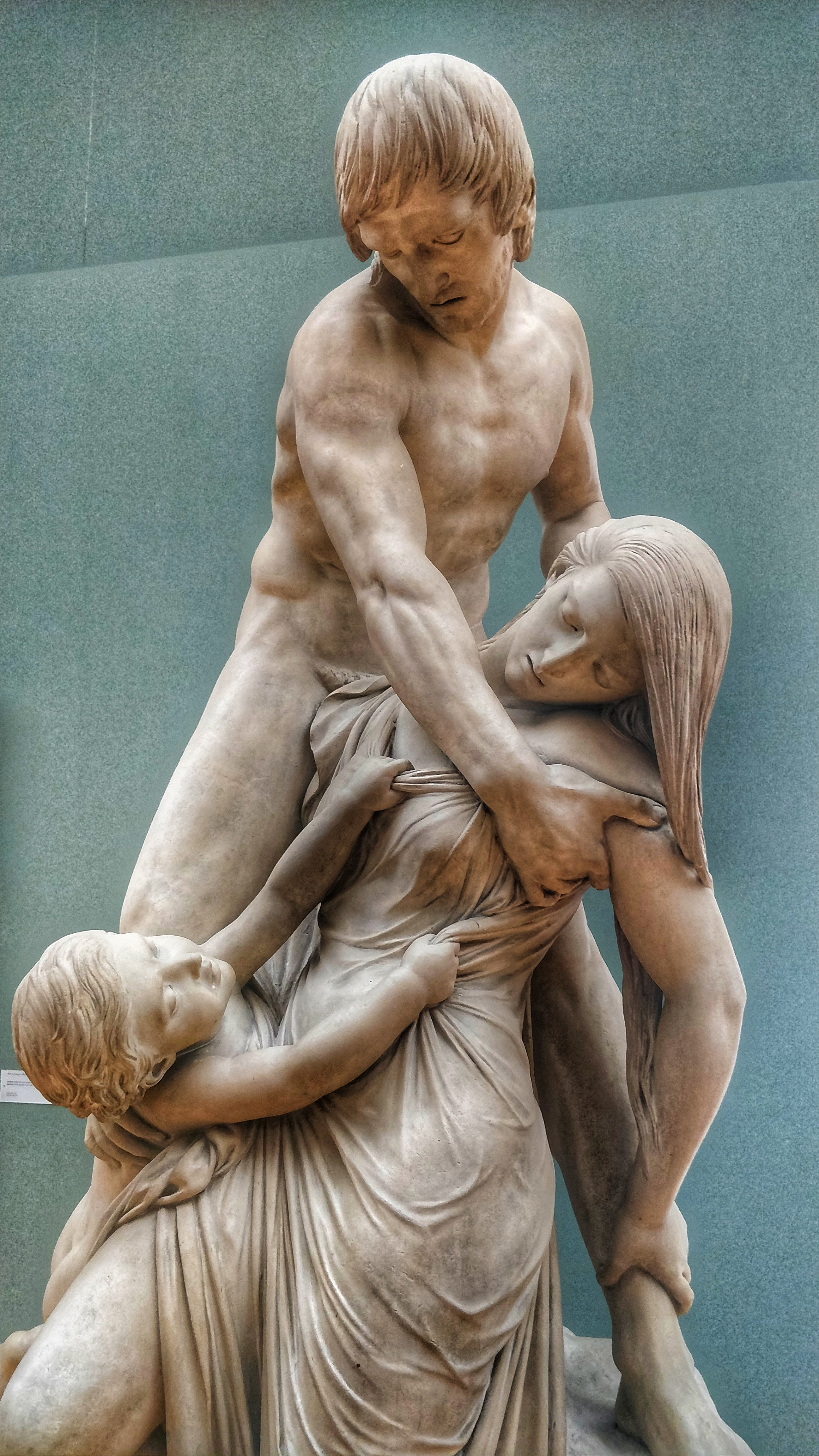 Sculpture by Matthias Kessels, circa 1832-1835.